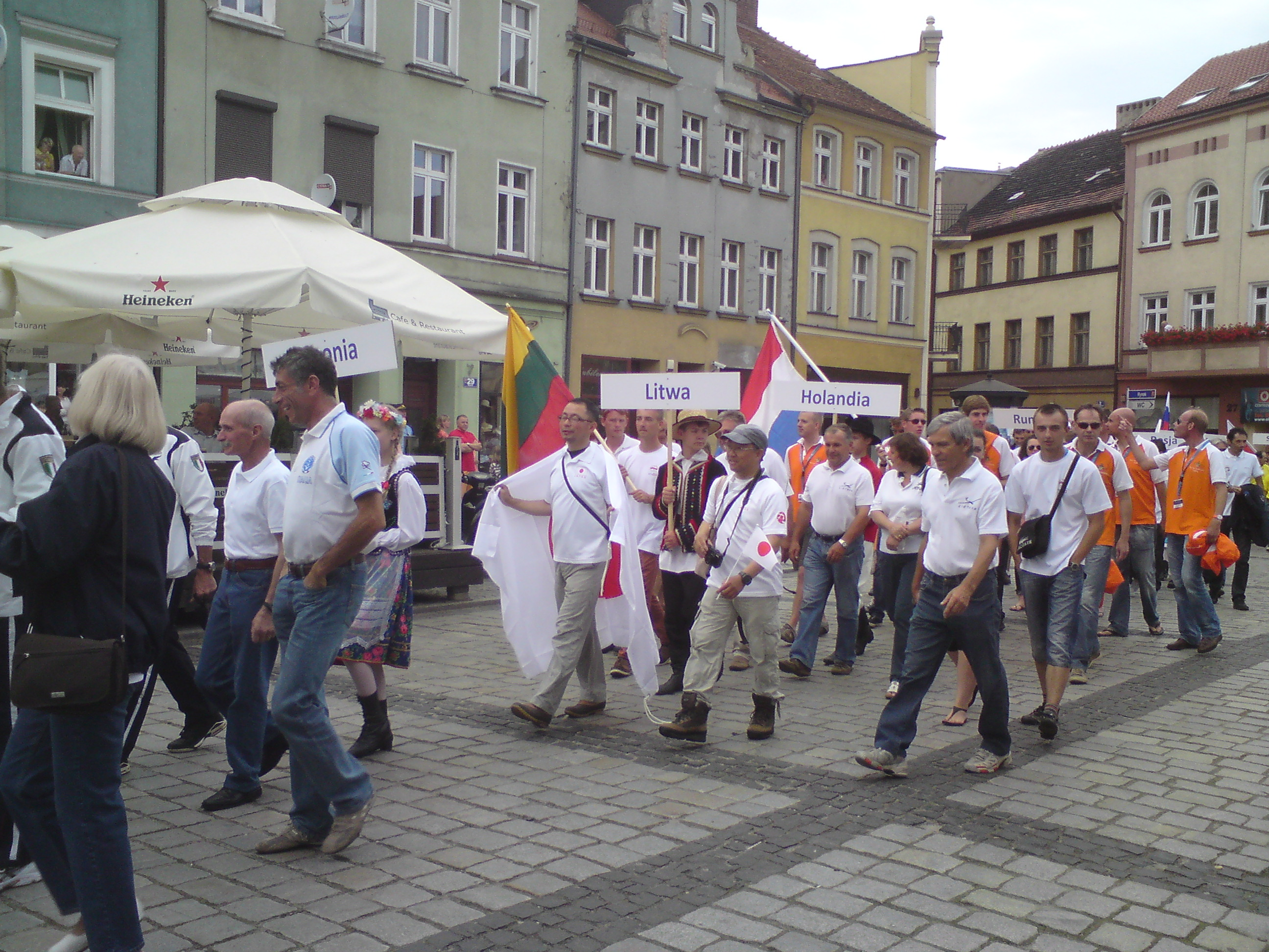 17th European Gliding Championships, opening ceremony parade. The pilots enter the main square of Ostrów Wielkopolski for the official ceremony.